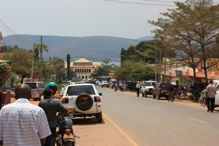 View of Kigoma, Tanzania 2012 with lake and railway station